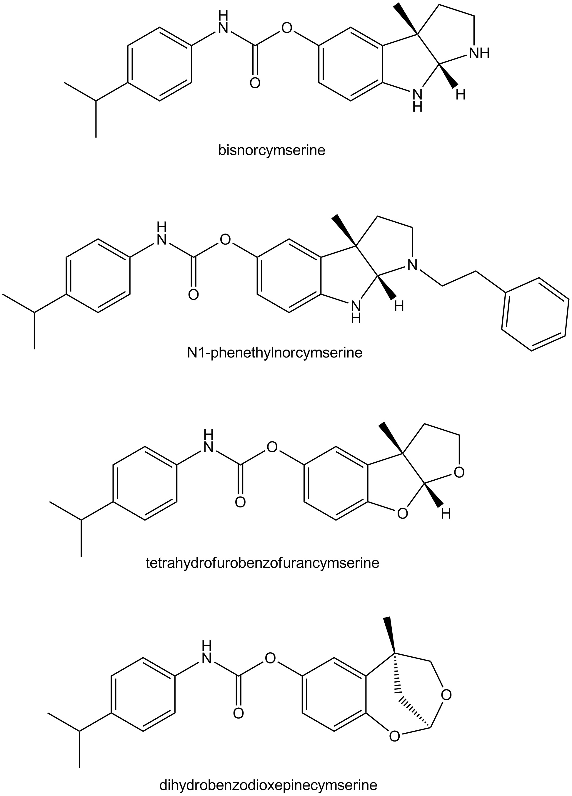 Structures of some derivatives of cymserine